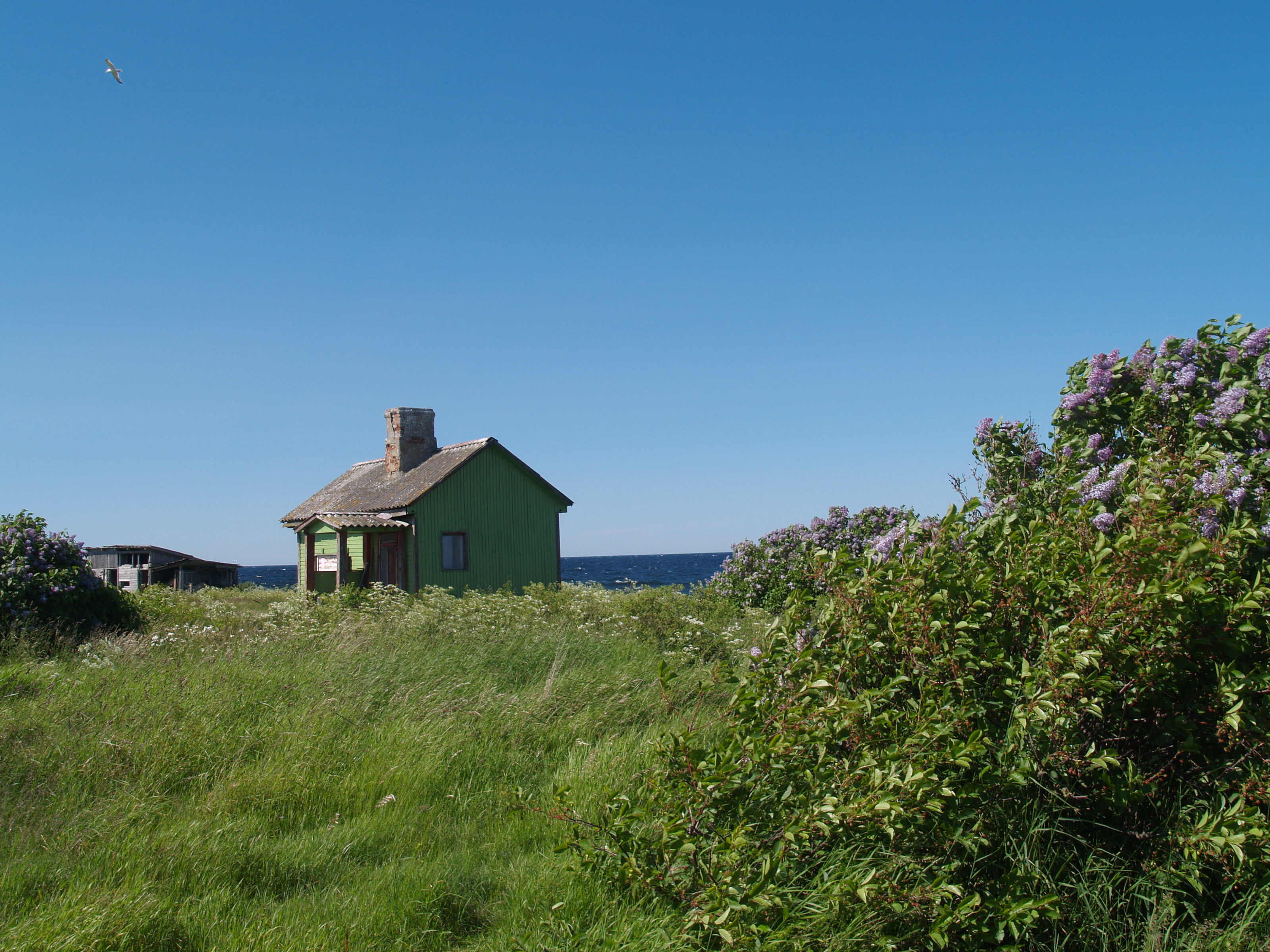 Sauna in Keri island